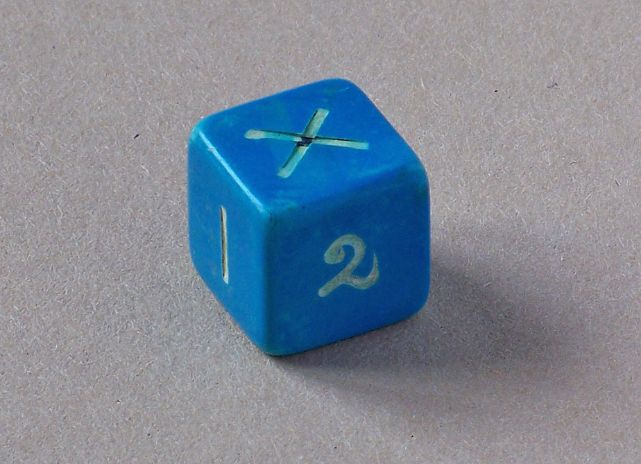 Dice with 1 2 X to play italian football pools (Totocalcio)